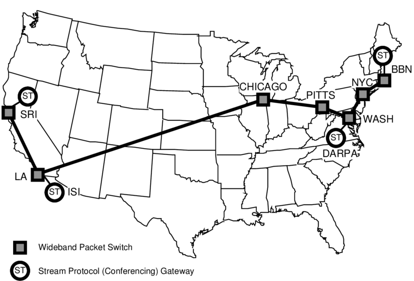 Terrestrial Wideband Internet nodes and conference sites.